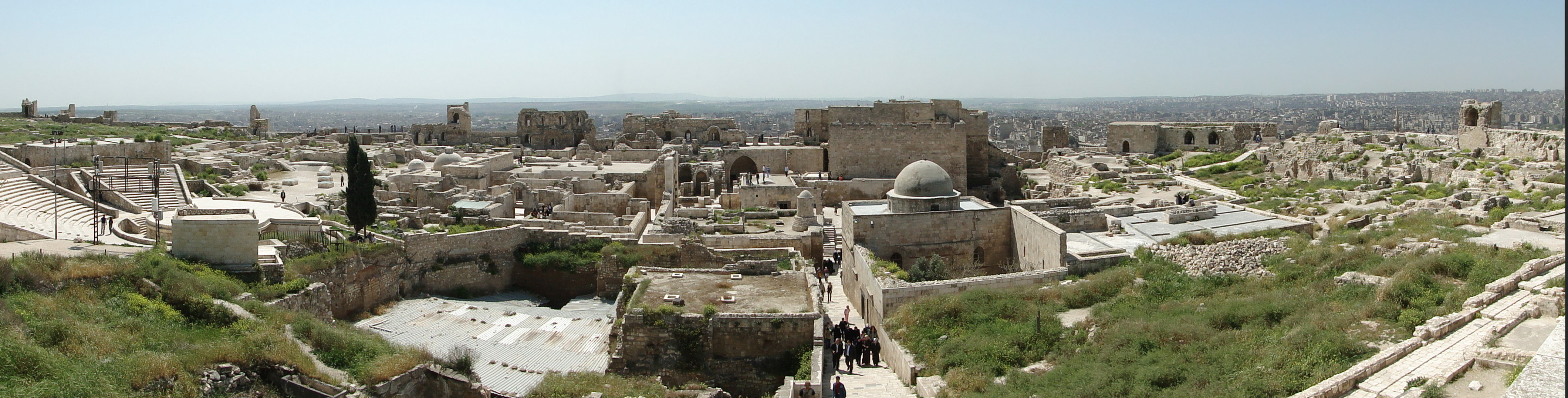 View of the top of the Citadel of Aleppo, Syria